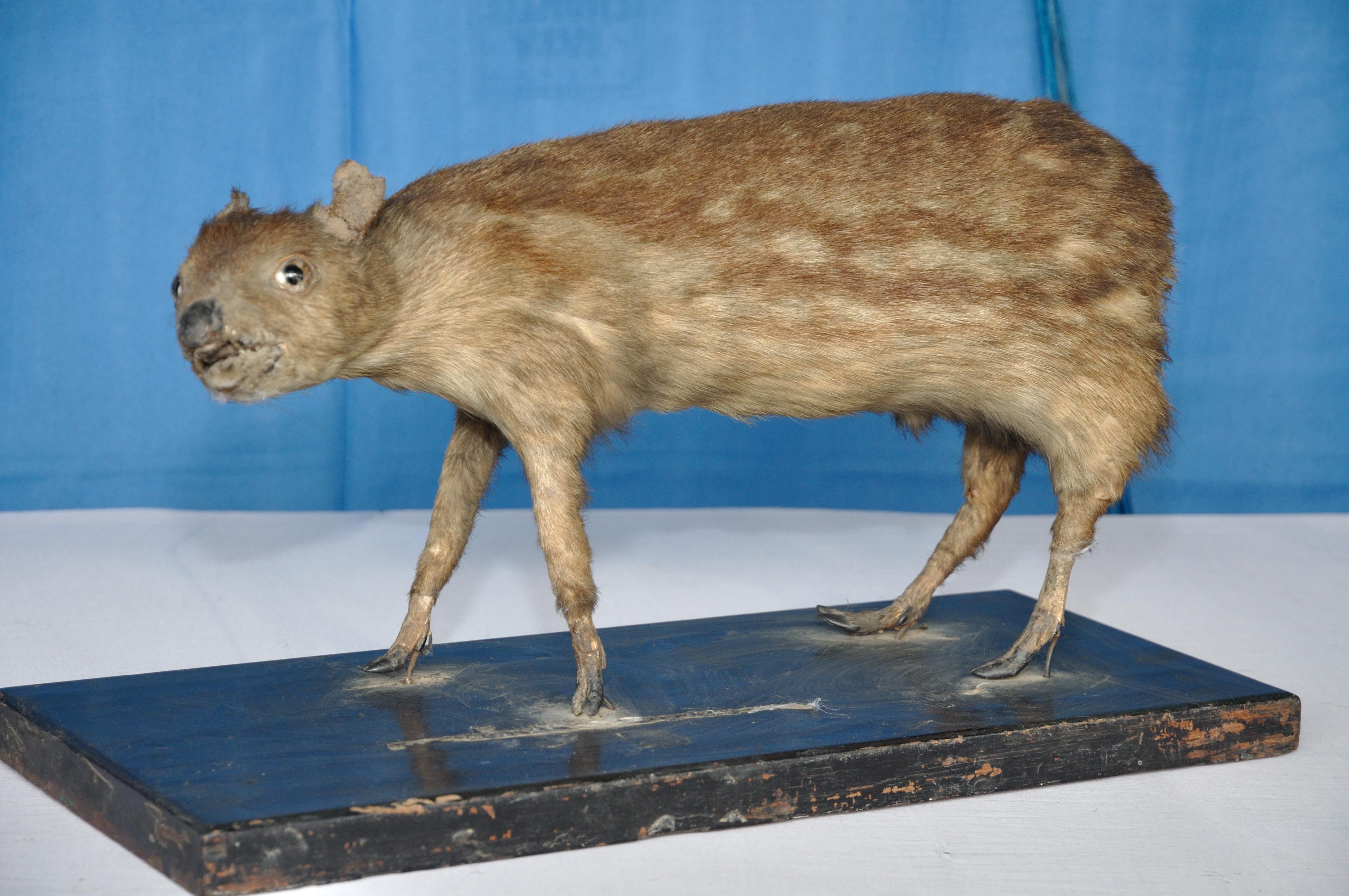 This taxidermied species has been exhibited by the Zoological Survey of India, Kolkata, under the Ministry of Environment and Forest, Govt. of India, at the 'Science & Technology Exhibition as well as Career Counseling Programme', that organized at the Netaji Siksha School ground, Sangrampur, Badamtala, Palta, North 24 Parganas, West Bengal.